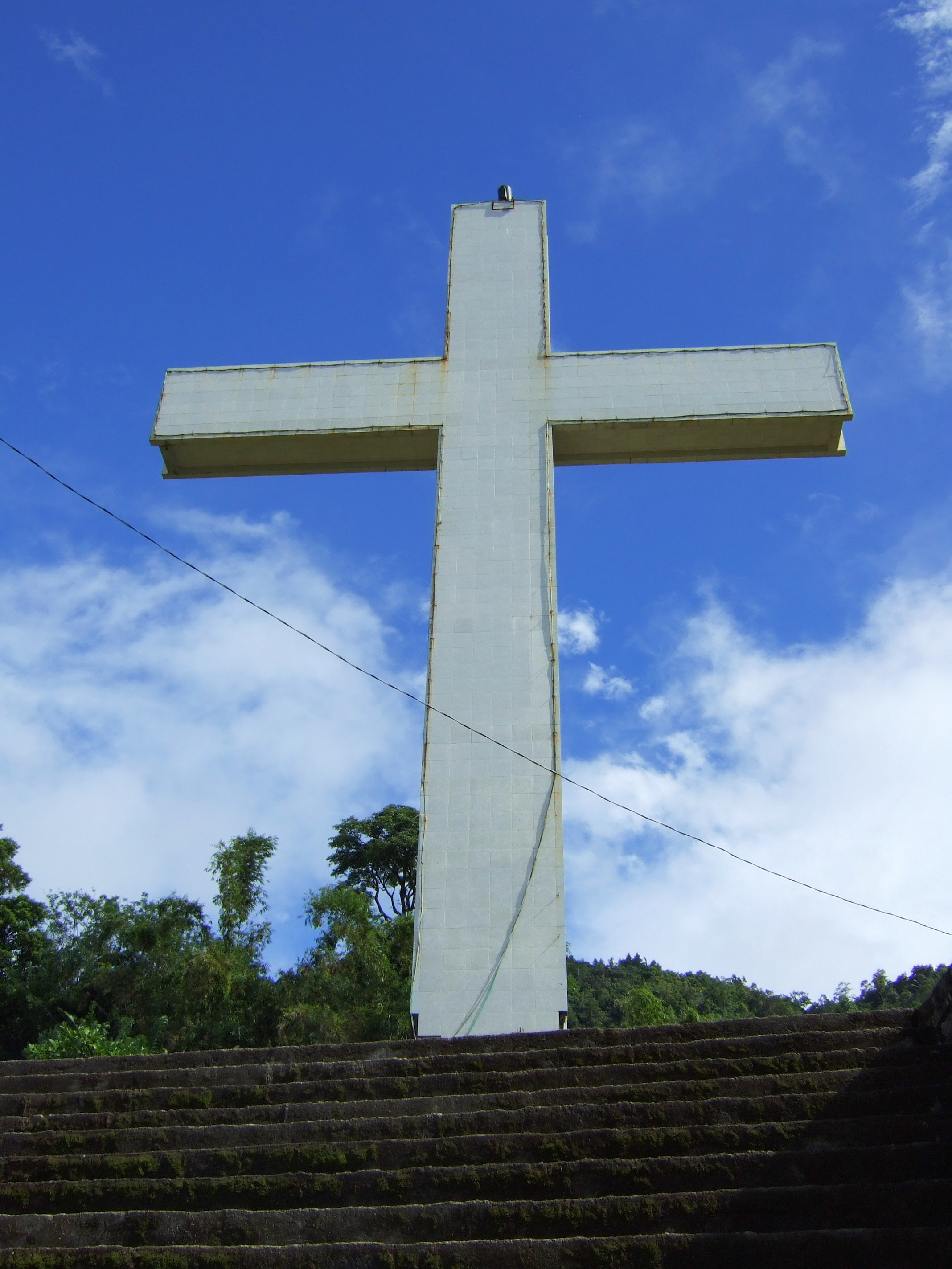 Christian cross on top of Bukit Kasih, Kanonang, Kawangkoan, North Sulawesi, Indonesia